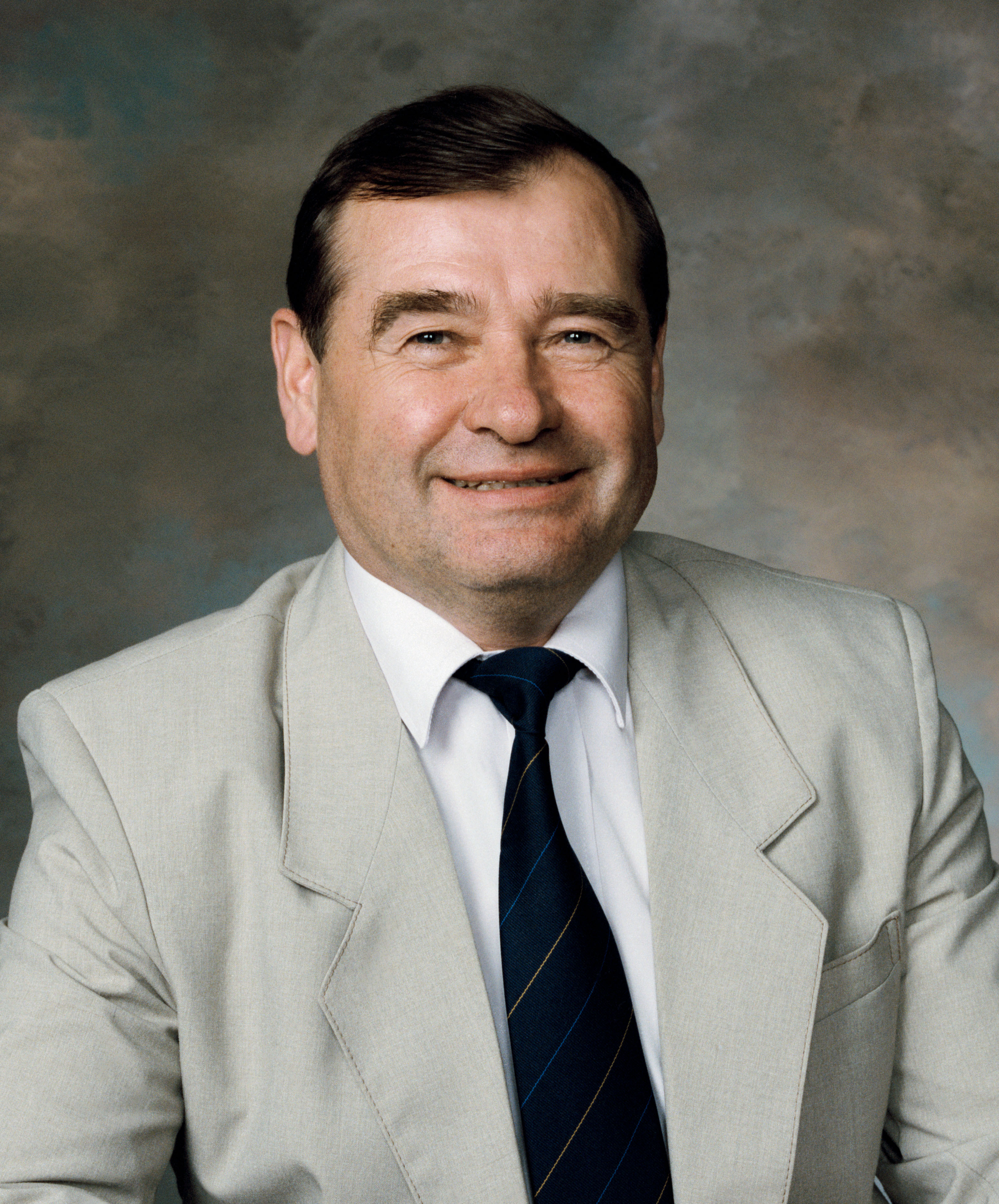 Cosmonaut Gennady Strekalov in civilian clothes